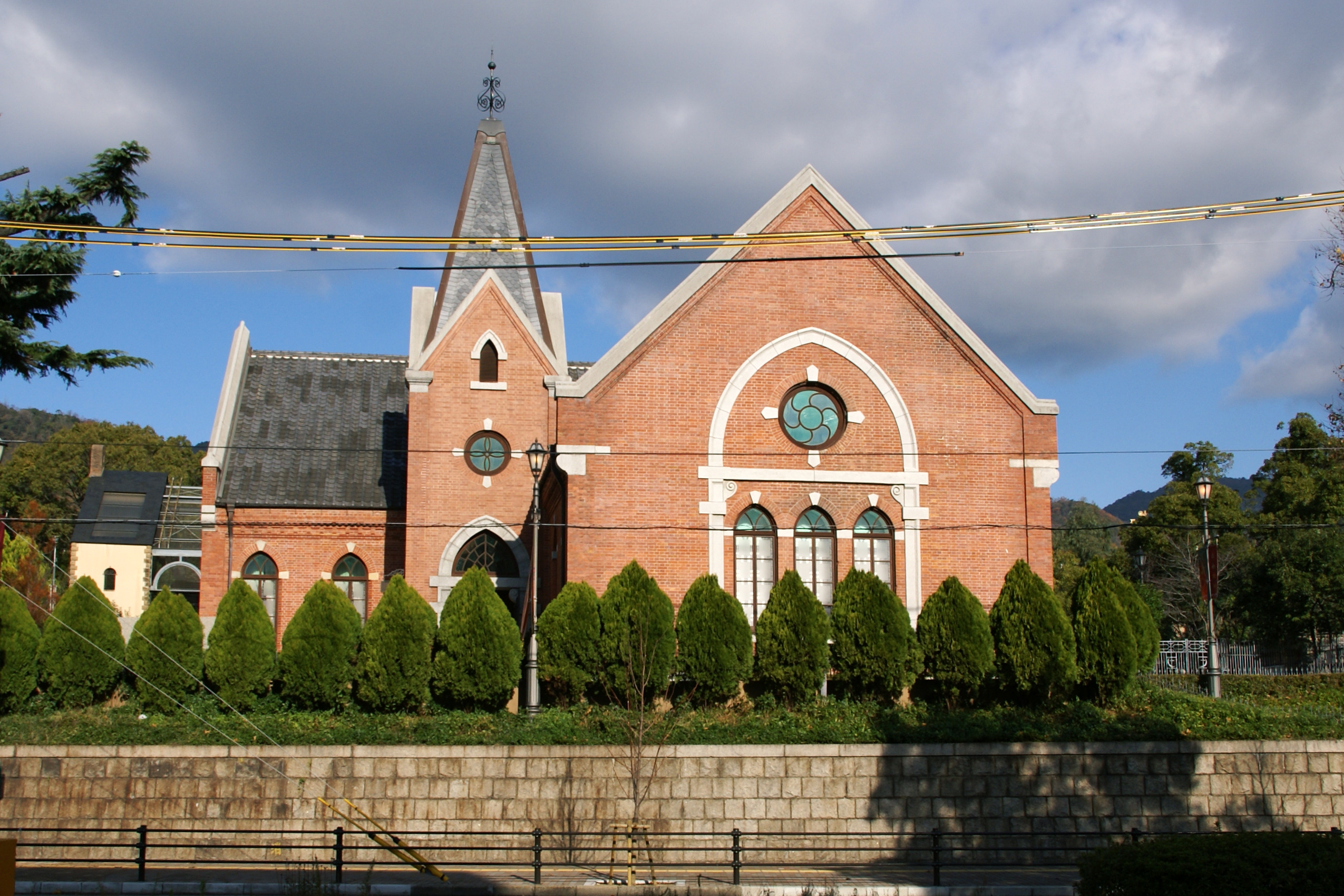 Kobe City Museum of Literature in Kobe, Hyogo prefecture, Japan